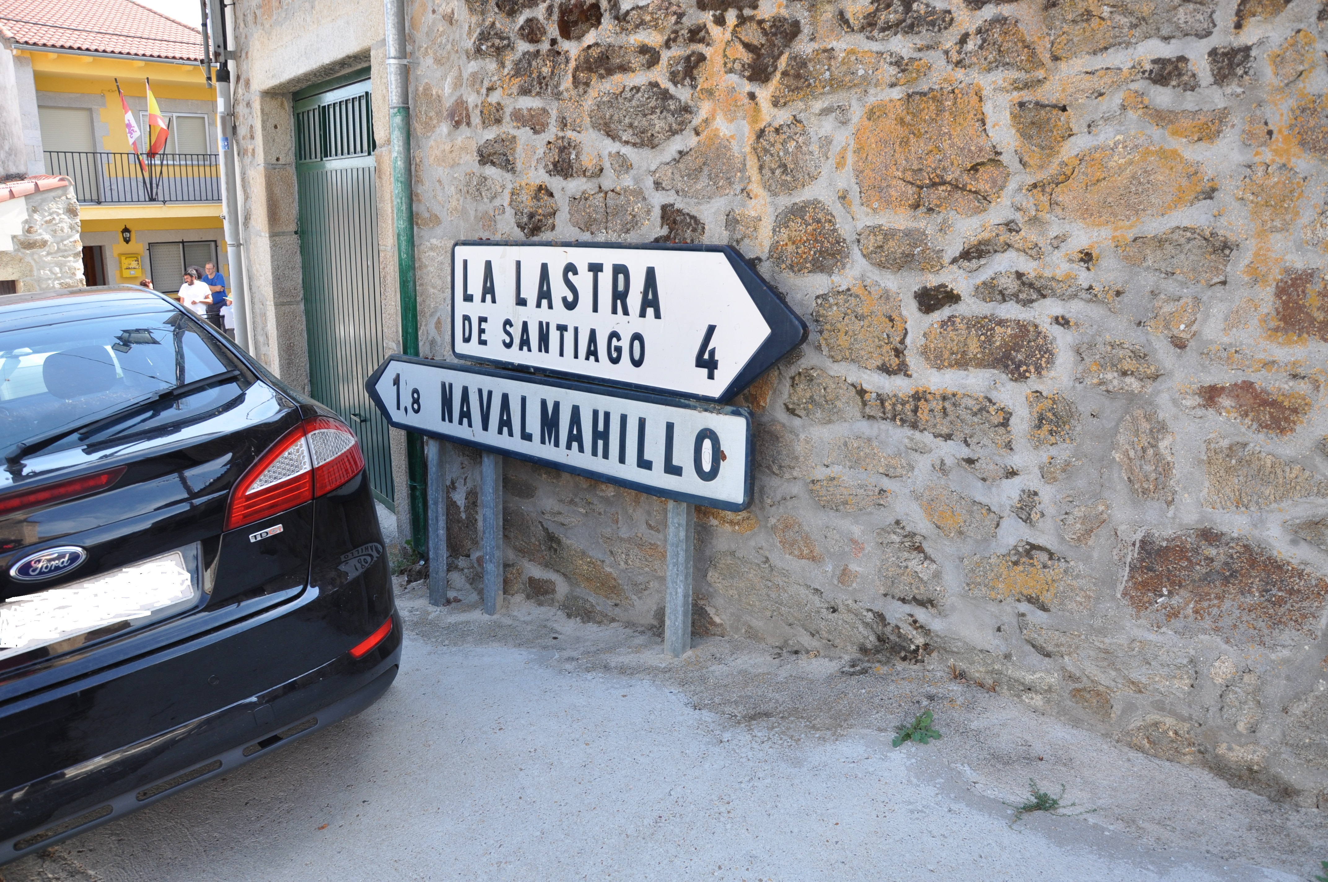 Direction signs in a street of Santiago del Collado, Avila, Spain